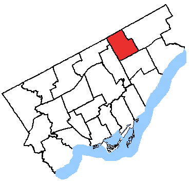 Map of the Scarborough—Agincourt electoral district. Based on Earl Andrew's :Image:Ct04.PNG and :Image:St04.PNG, created by SimonP.